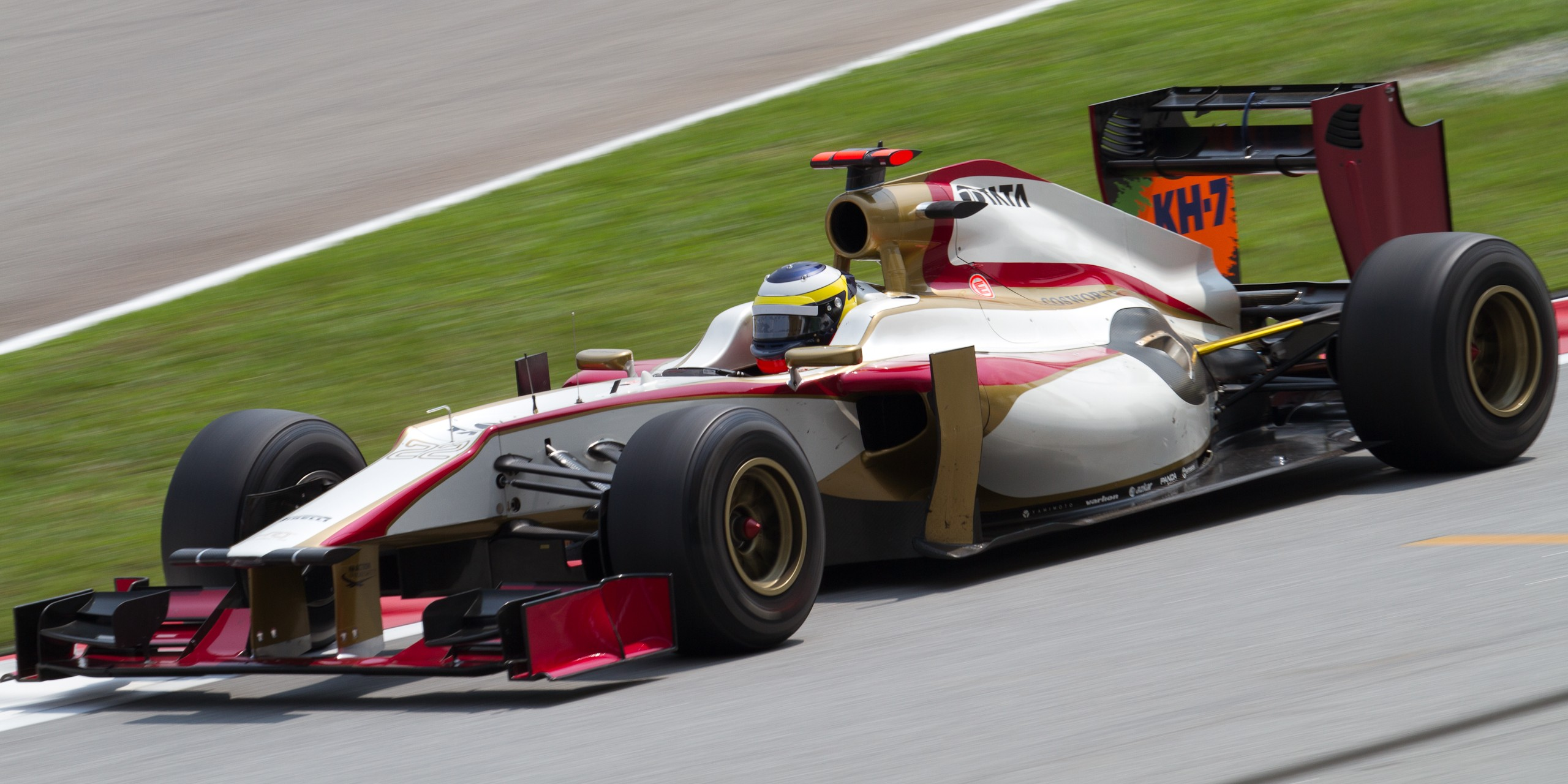 Formula One 2012 Rd.2 Malaysian GP: Pedro de la Rosa (HRT) during the first practice session on Friday.